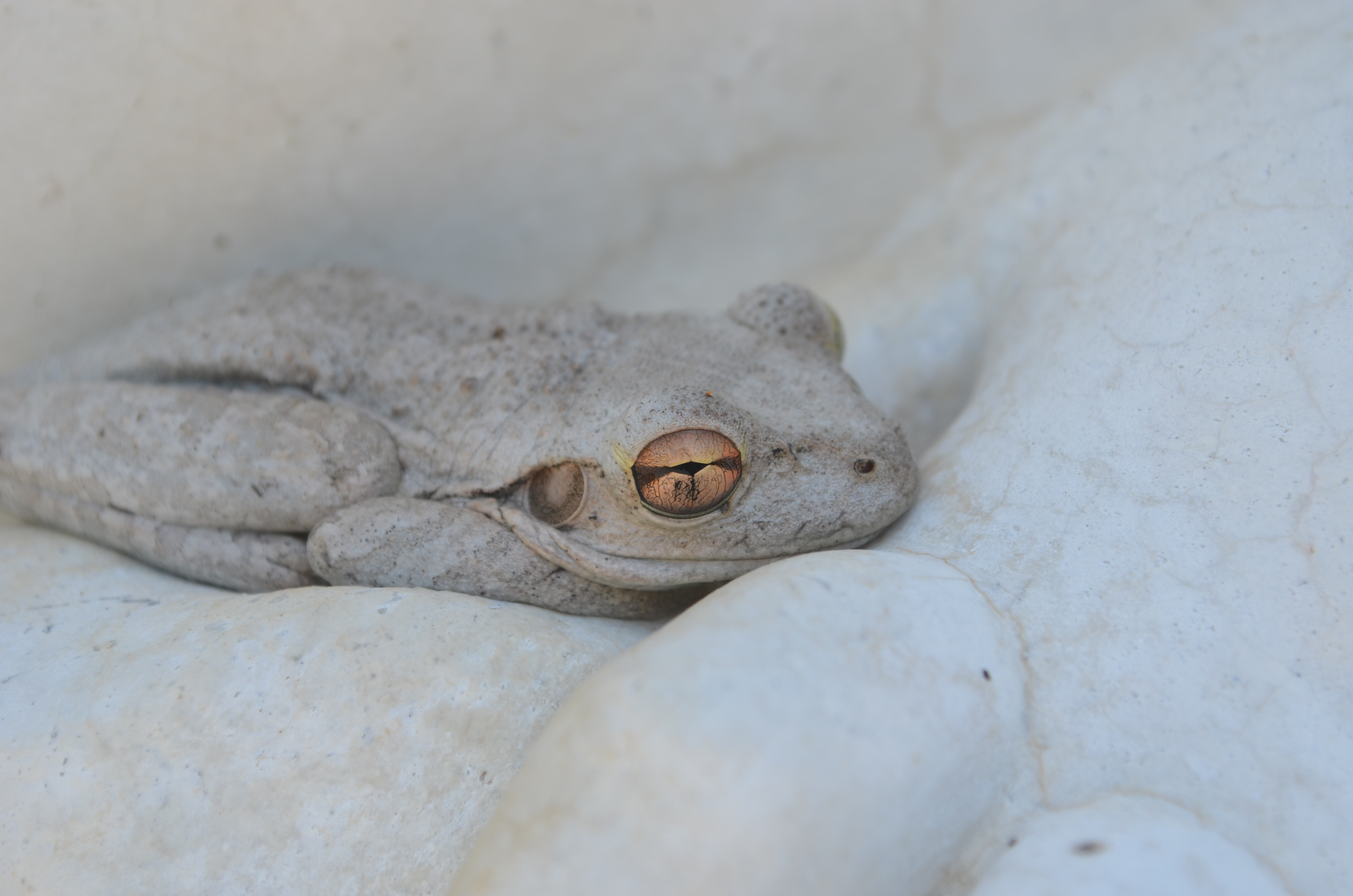 A photo of Cuban Tree frog